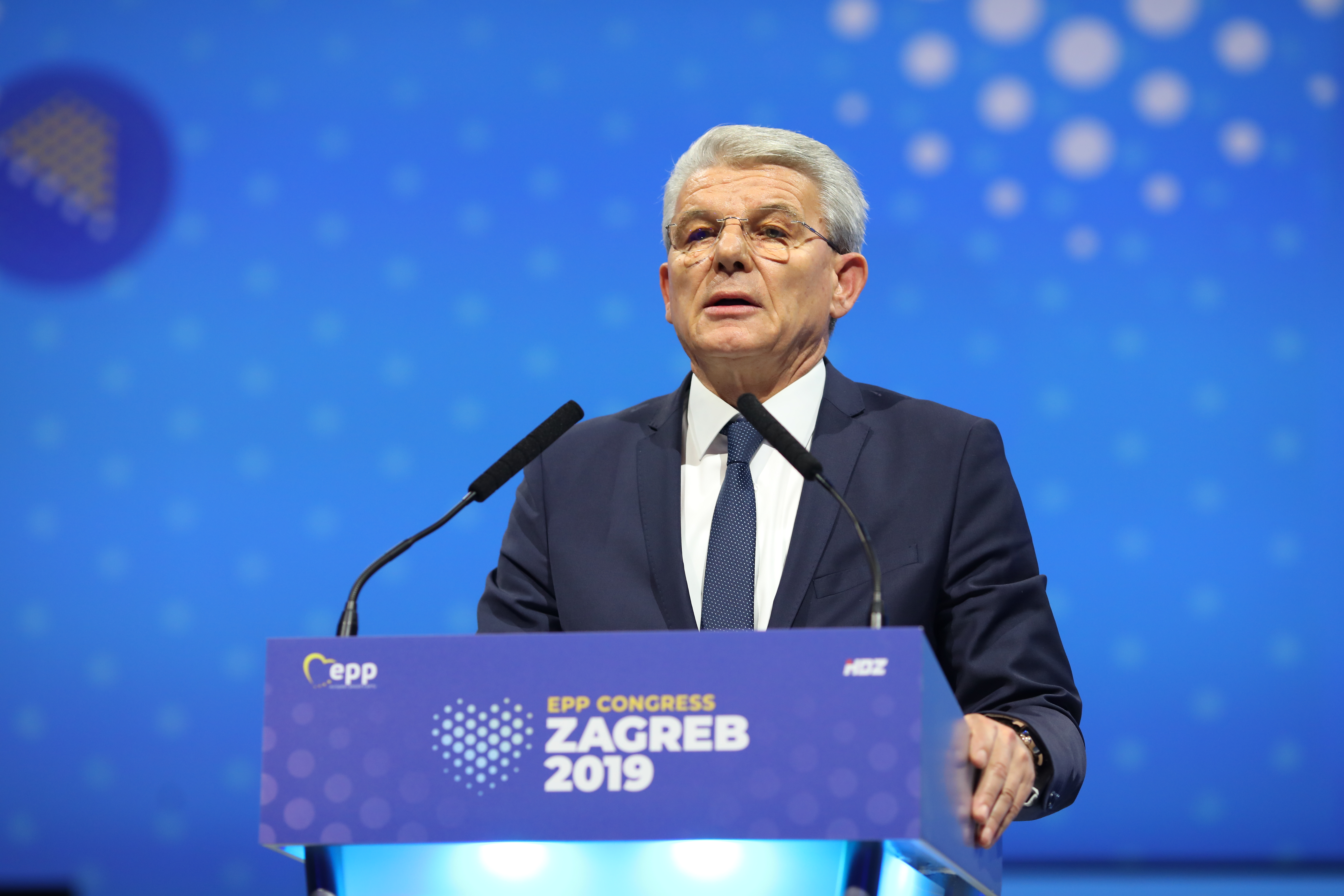 EPP Zagreb Congress in Croatia, 20-21 November 2019